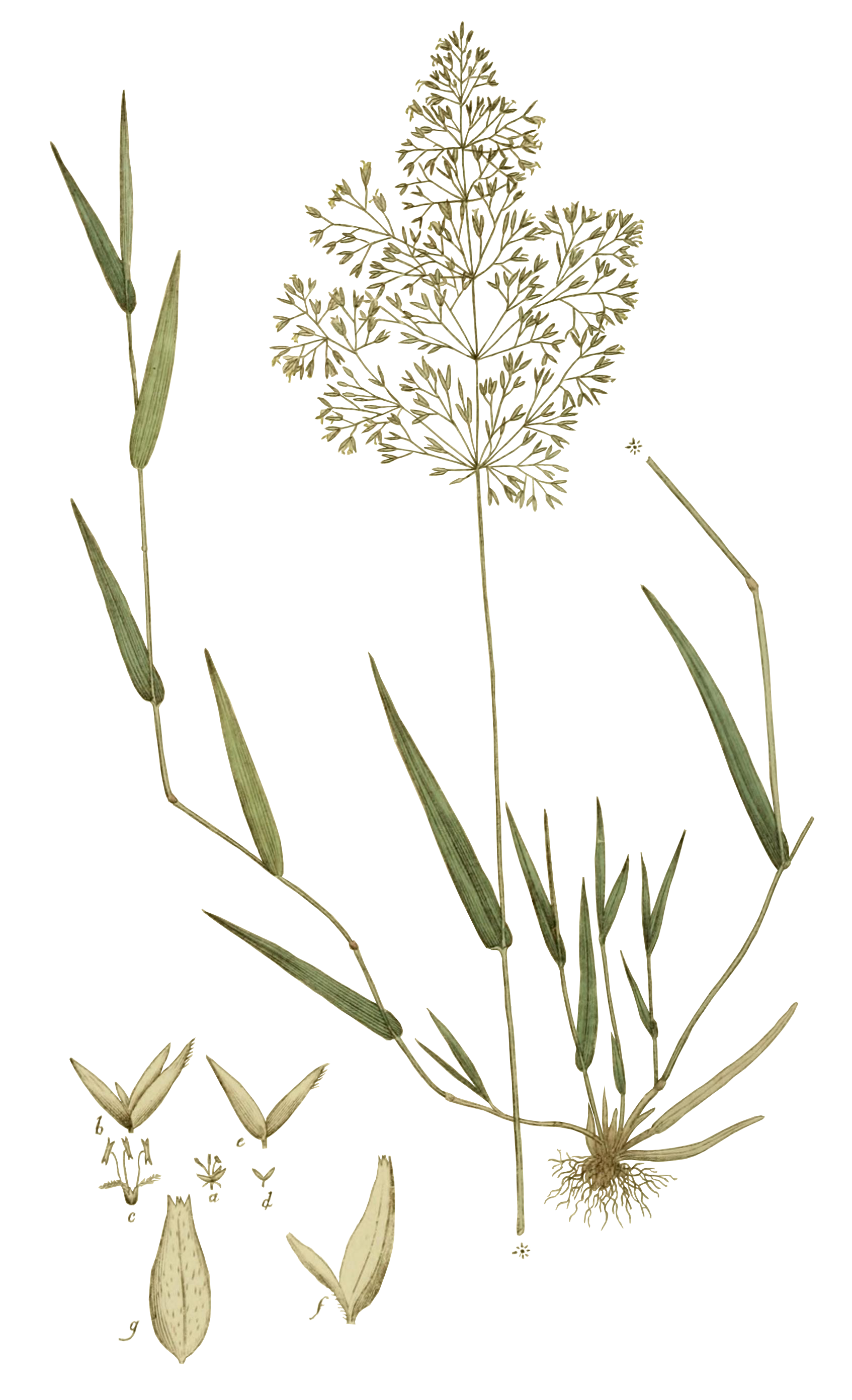 Illustration of Agrostis stolonifera L.